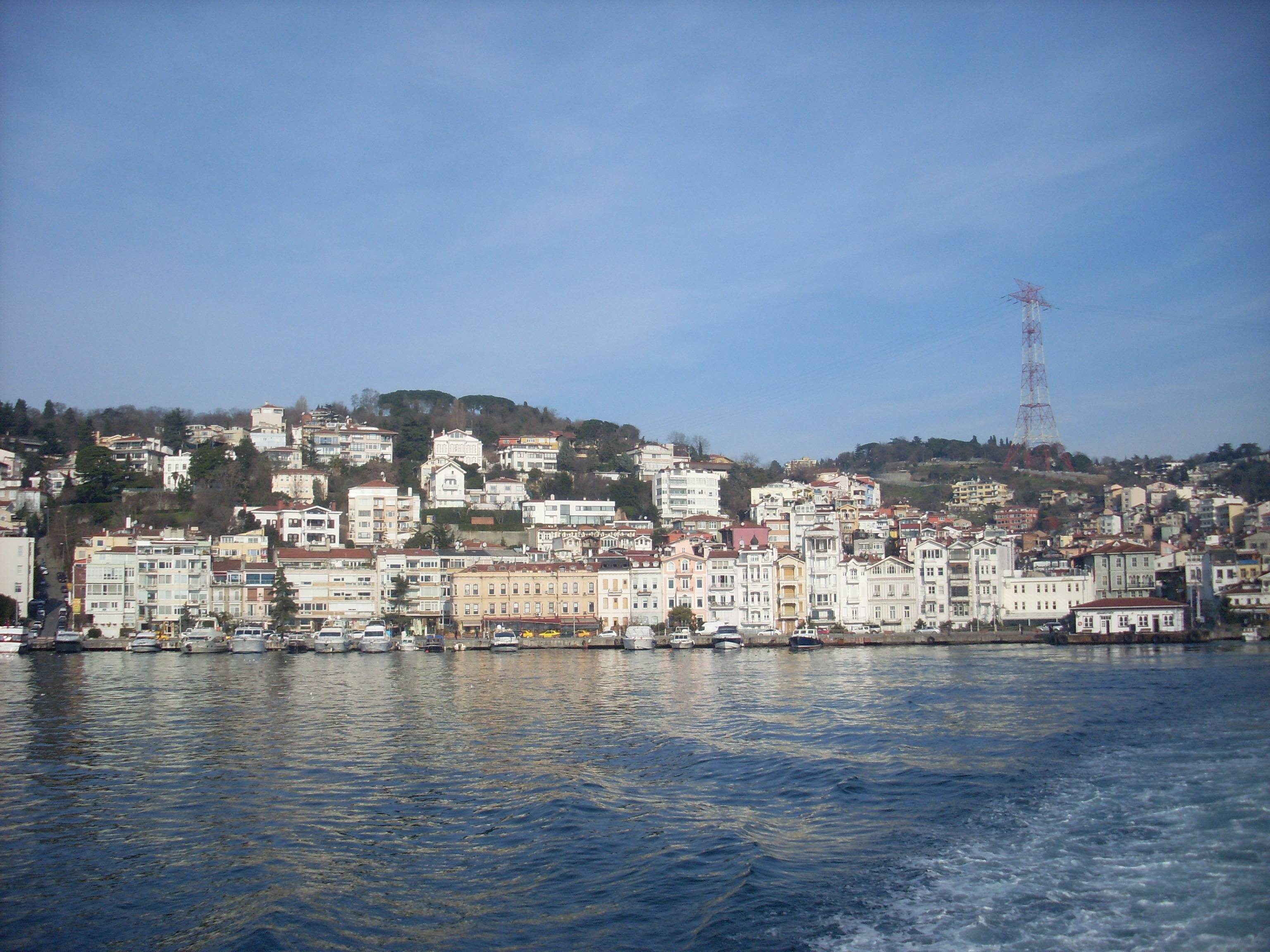 İstanbul - Arnavutköy, Beşiktaş r3 - Şubat 2013